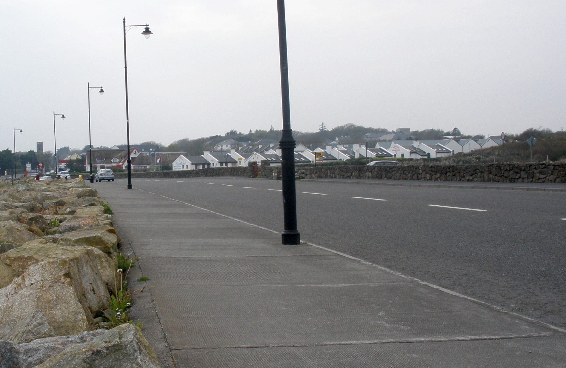 The R336 road approaching the village of Spiddal from the east in County Galway in Ireland.